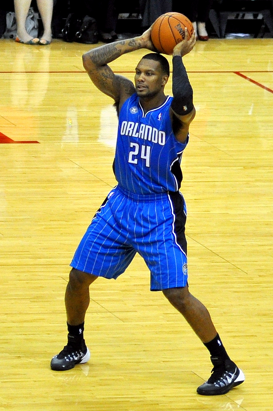 Romero Osby of the Orlando Magic looks to pass the ball during a preseason NBA basketball game against the Houston Rockets, Oct. 16, 2013, at the Toyota Center in Houston, Texas.